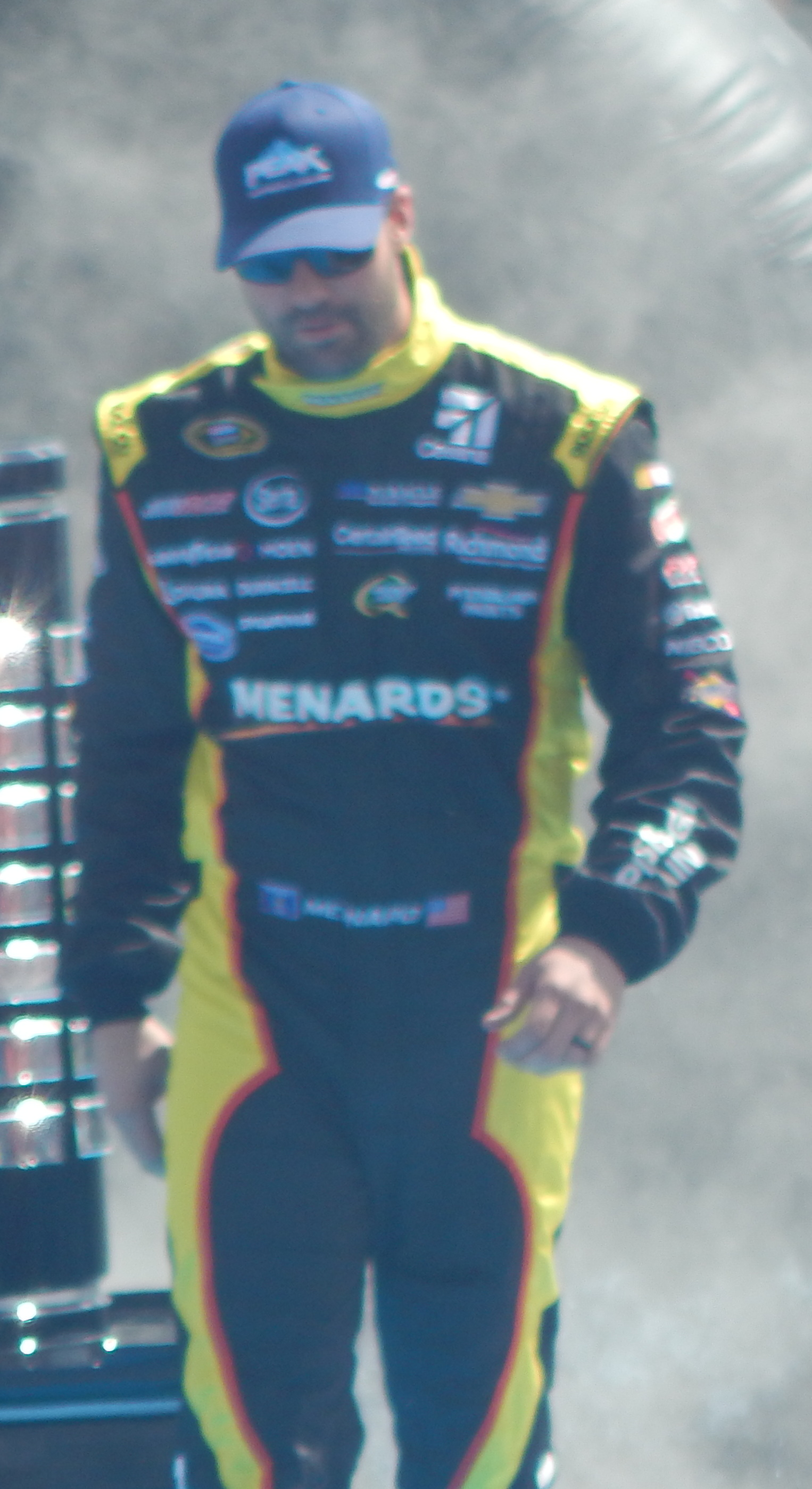 Paul Menard being introduced at Daytona International Speedway.